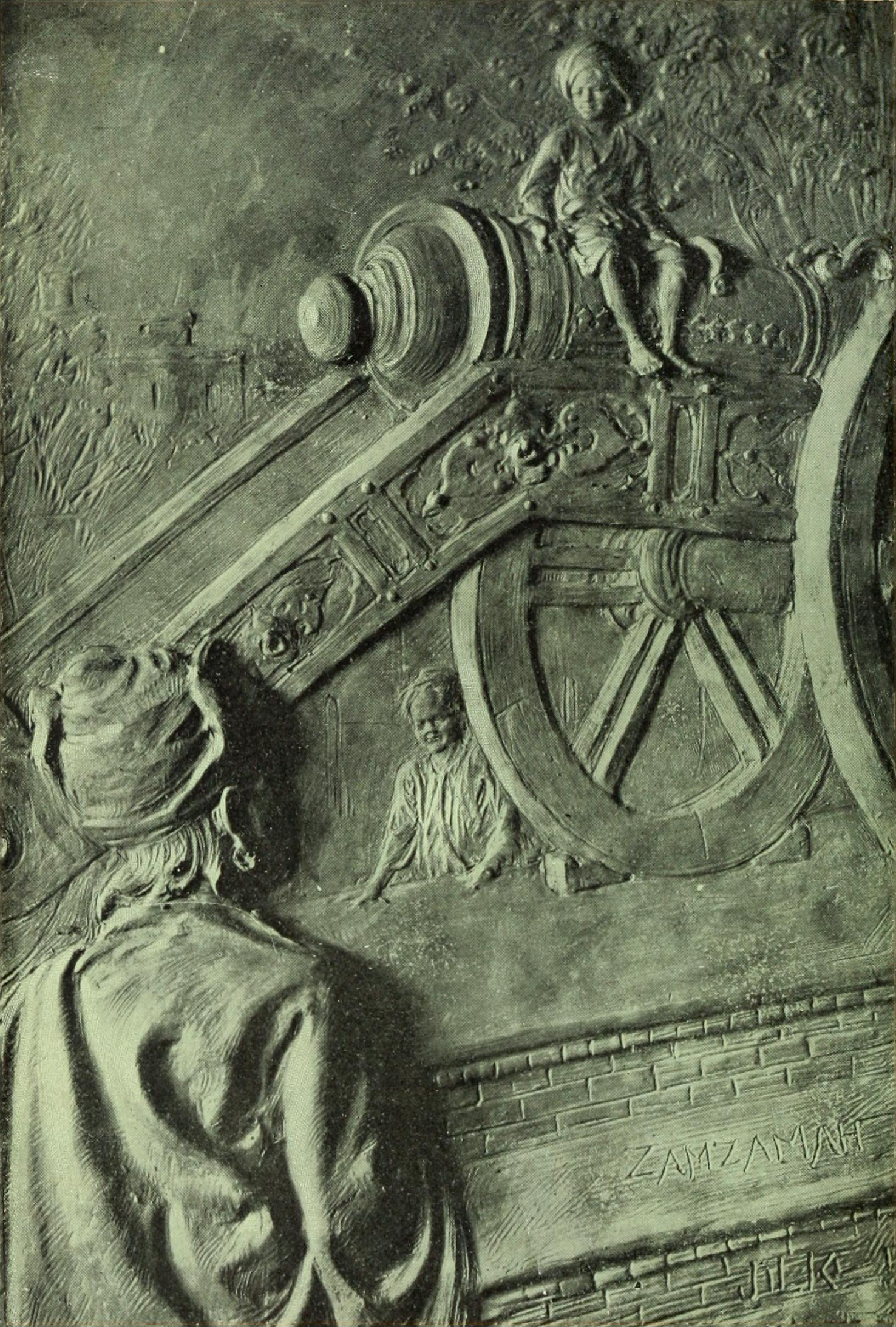 Illustration of a scene from Rudyard Kipling's "Kim" (1901) by his father John Lockwood Kipling.